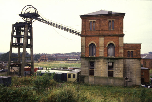 Bestwood Colliery winding engine house & headstocks This contains the country's only example of a vertical duplex steam winding engine. Built in 1873 at the Worsley Mesnes Ironworks, Wigan. The pit closed in 1967 and this is now preserved in situ and can be turned slowly by an electrohydraulic winch. This view shows the house to best advantage as there are no trees in the way. The engine is on about six levels inside the building and is an awesome beast. It can't be photographed in one view due to the horizontal subdivision of the building.